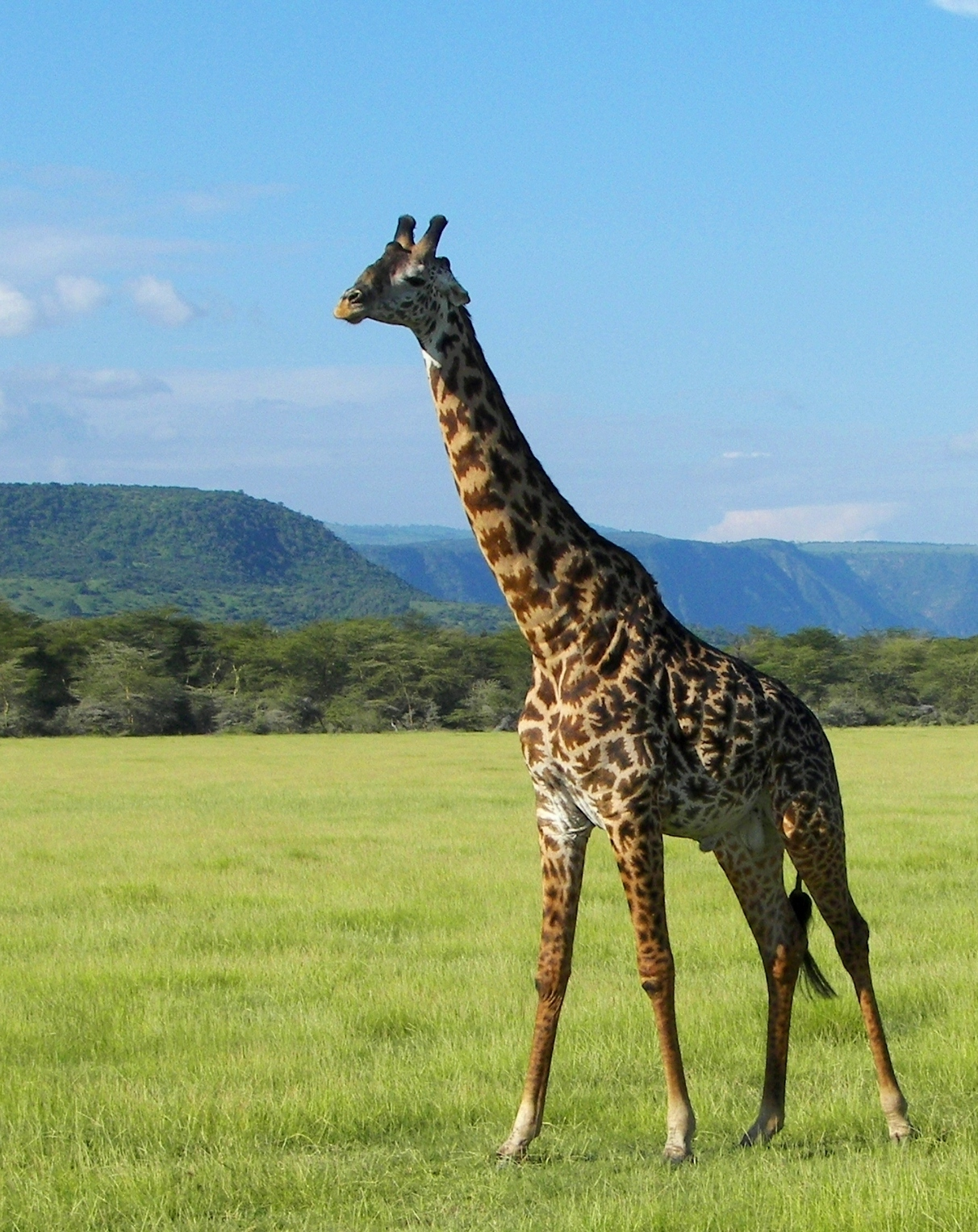 Giraffe in its natural environment in the Serengeti National Park, Tanzania